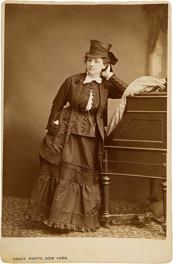 Cabinet photograph of Victoria Woodhull. Albumen silver print on card.